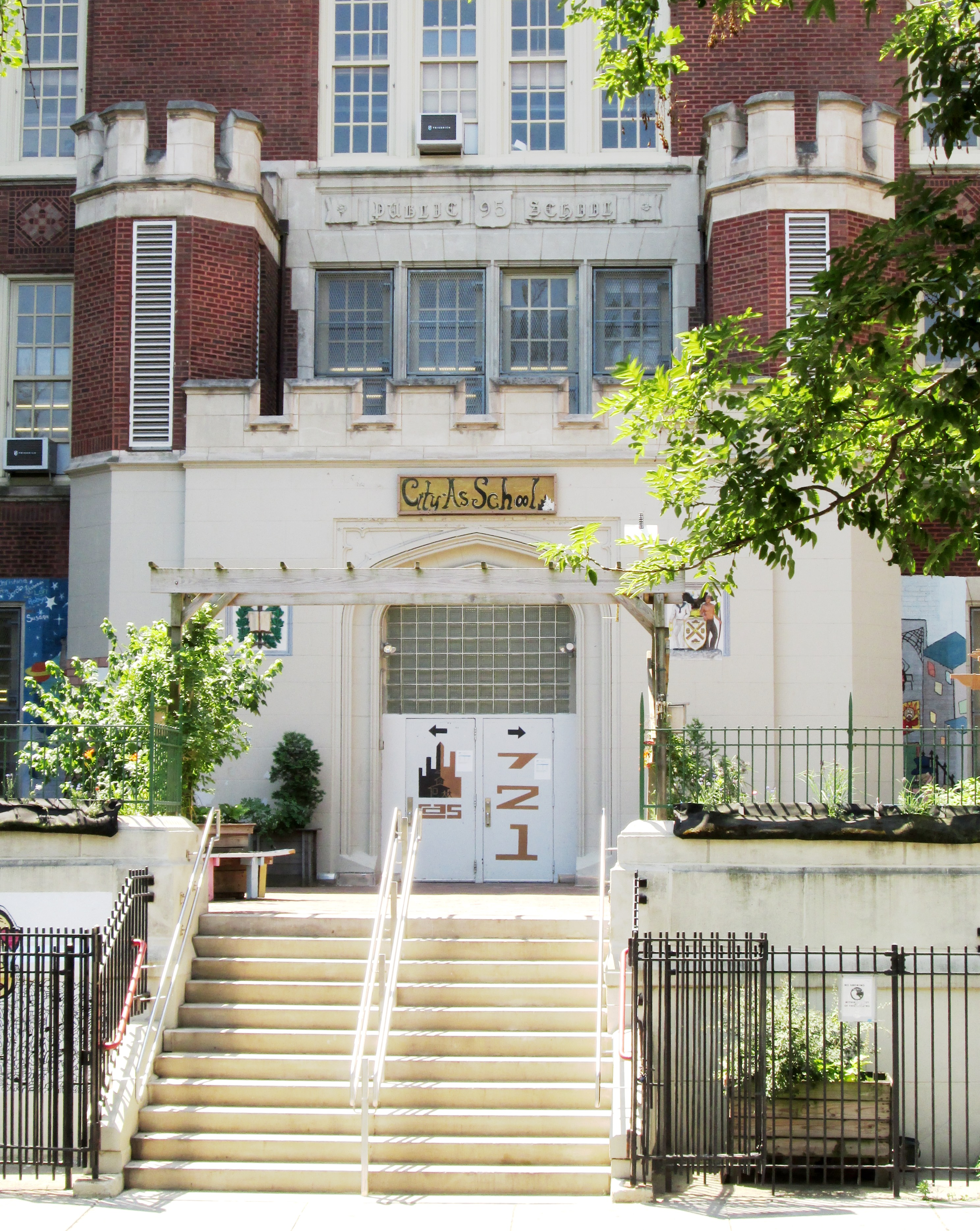 The entrance to City-As-School High School located at 16 Clarkson Street between Hudson Street and Seventh Avenue South in the West Village neighborhood of Manhattan, New York City. The building was constructed in 1911. (Source: NYC GIS map)